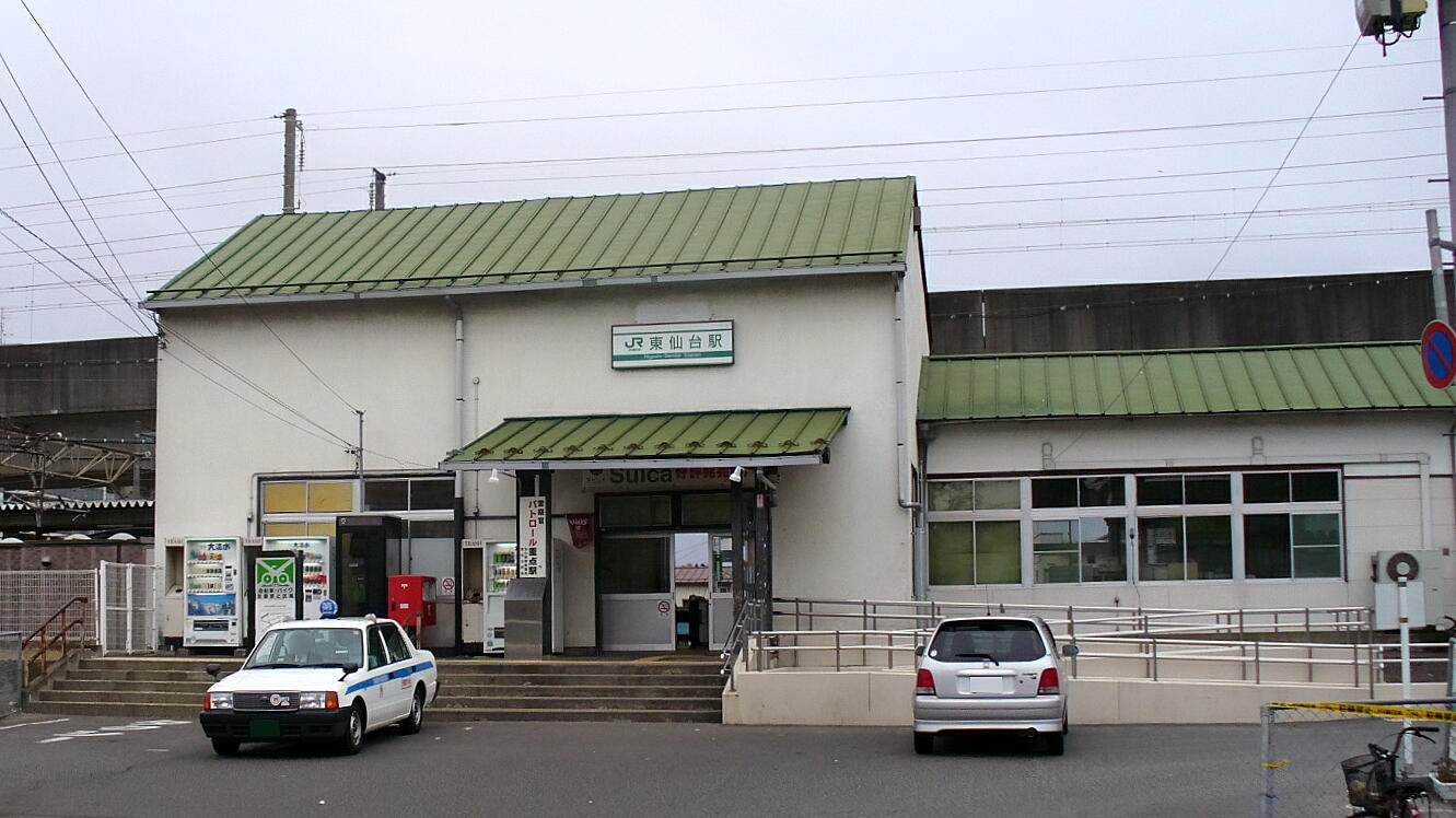 Higashi-Sendai Station on Tohoku Main Line